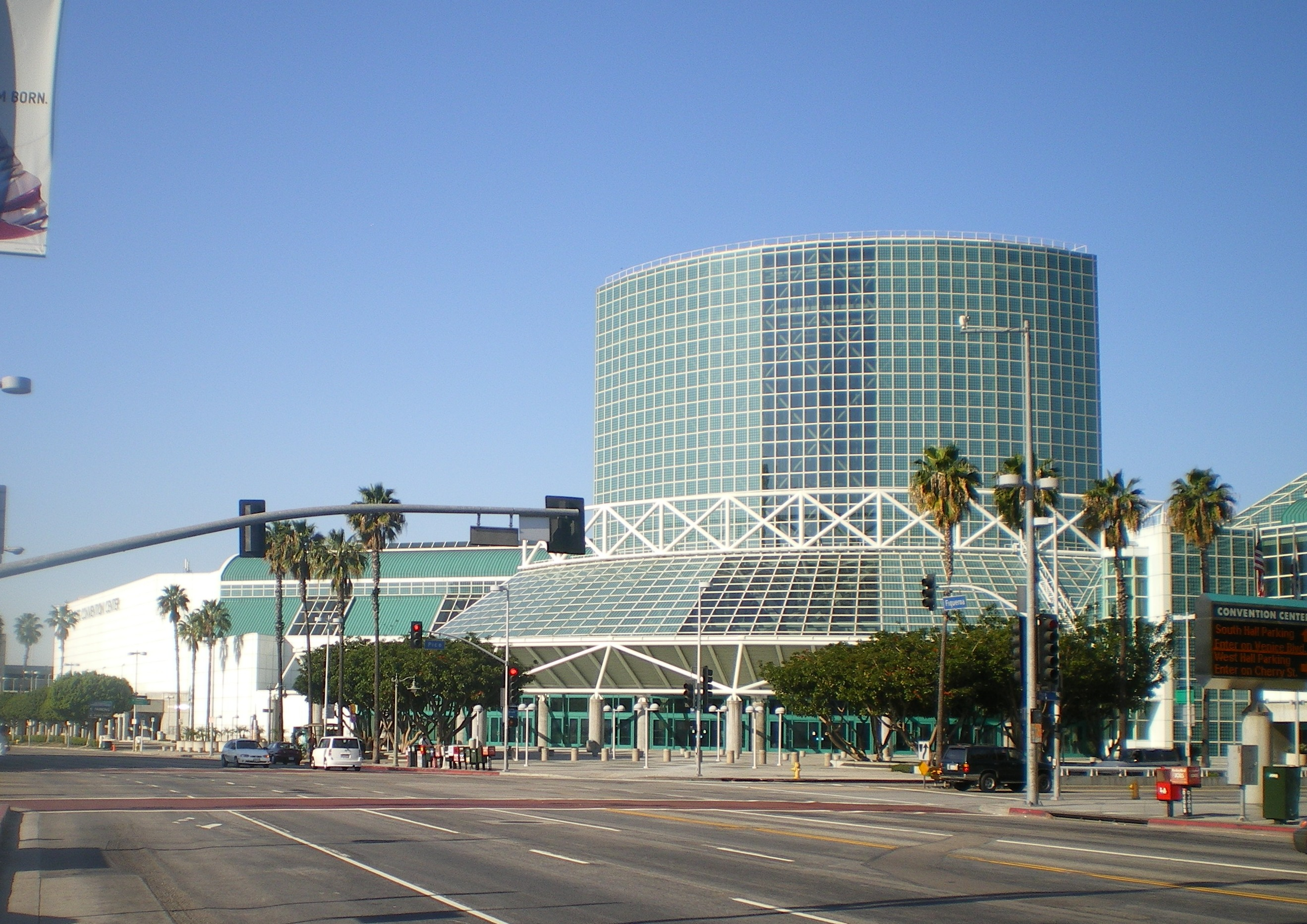 The Los Angeles Convention Center — in southern Downtown Los Angeles, California. Glass facade seen at Pico & Figueroa.